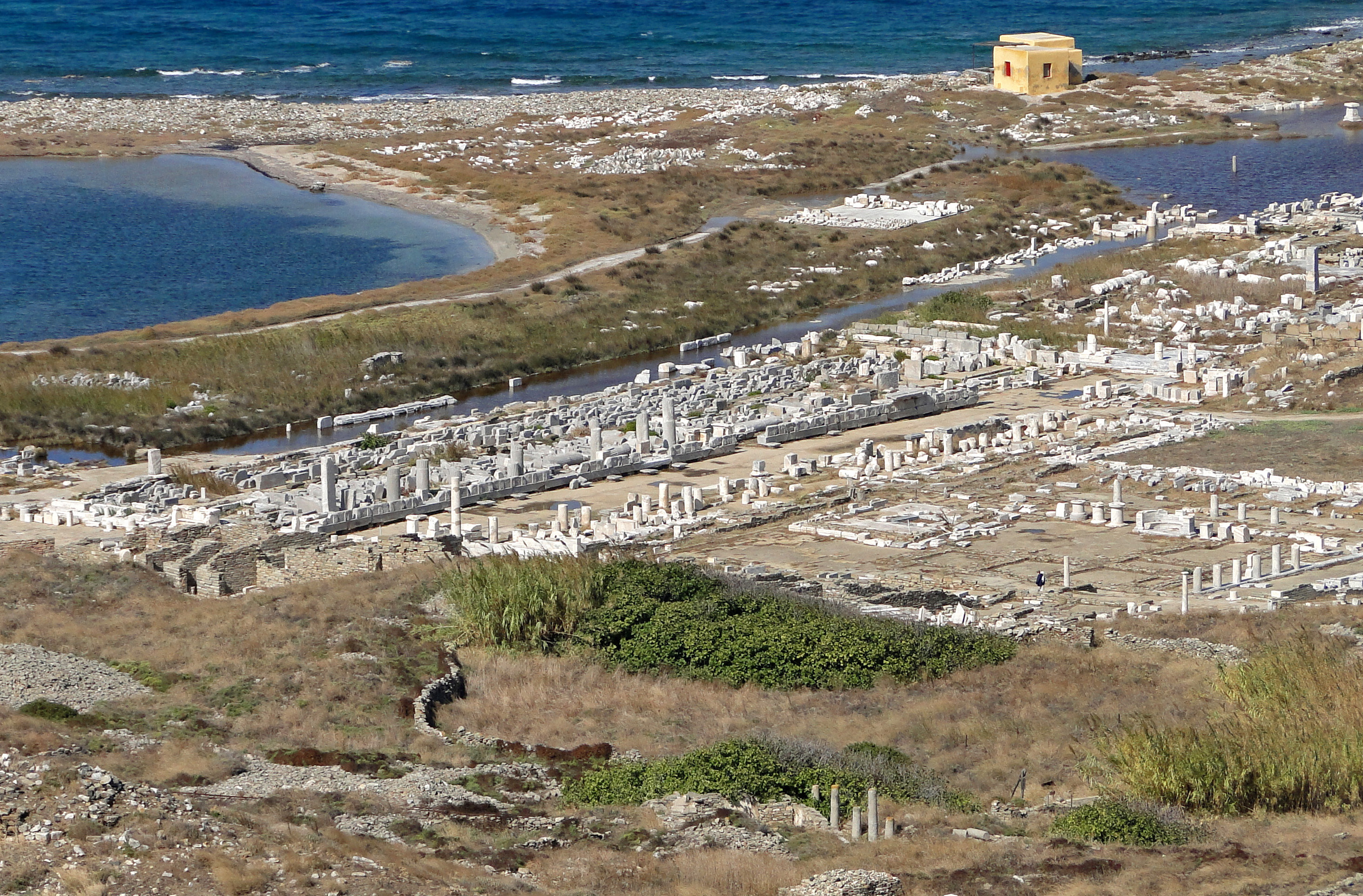 The Sacred Way in Delos, Greece